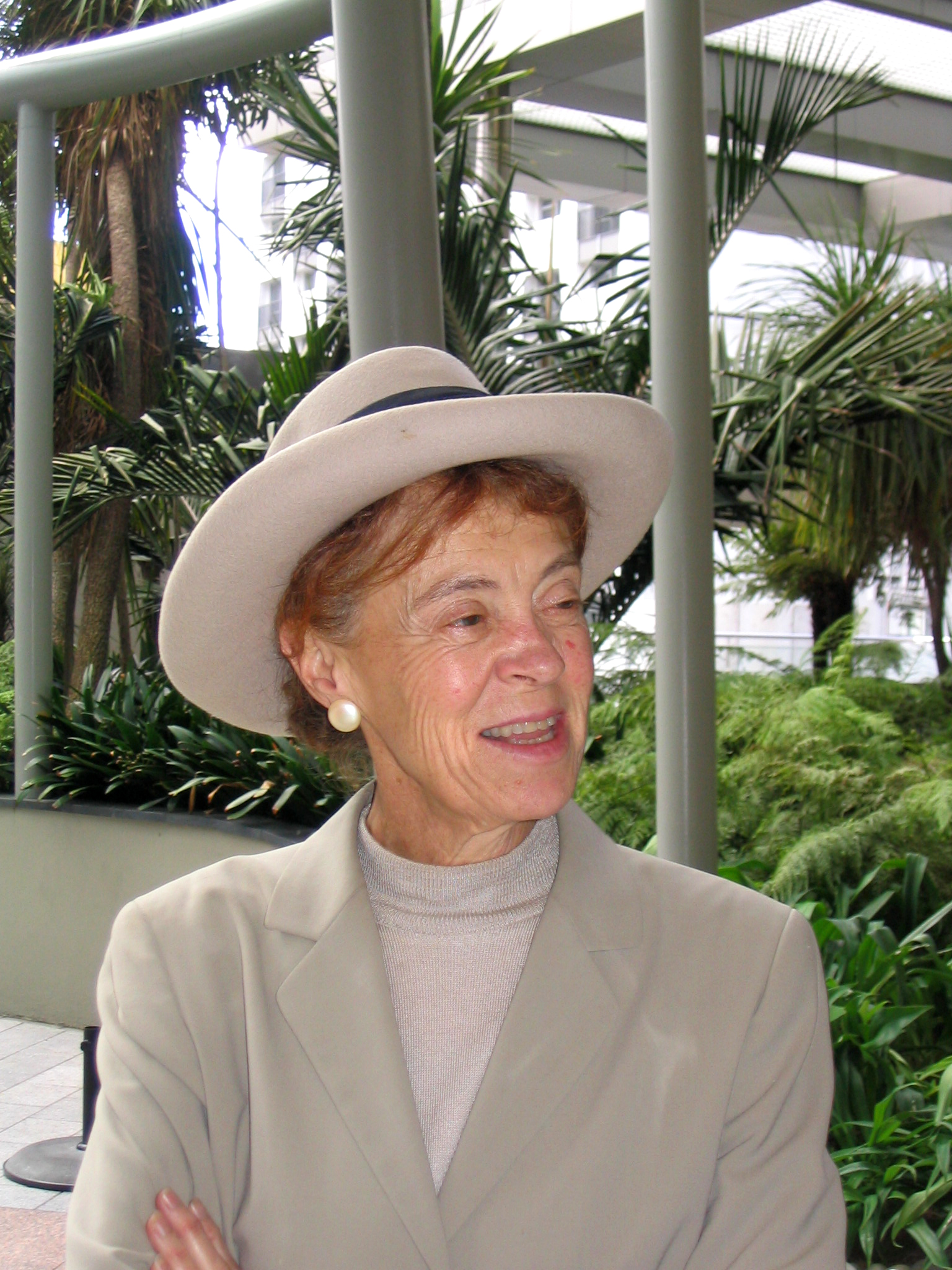 Moral philosopher Rosalind Hursthouse, probably at the University of Auckland [no original description].